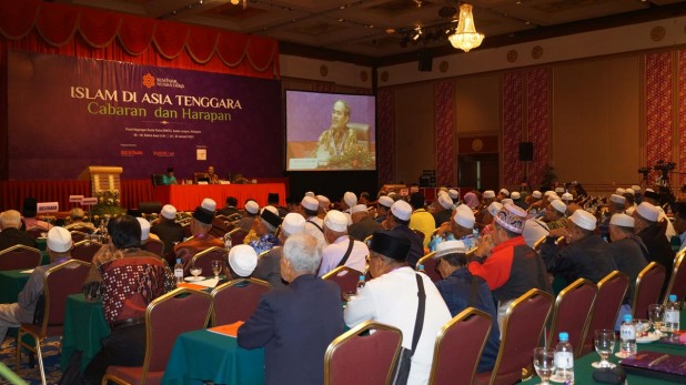 Seminar Nusantara